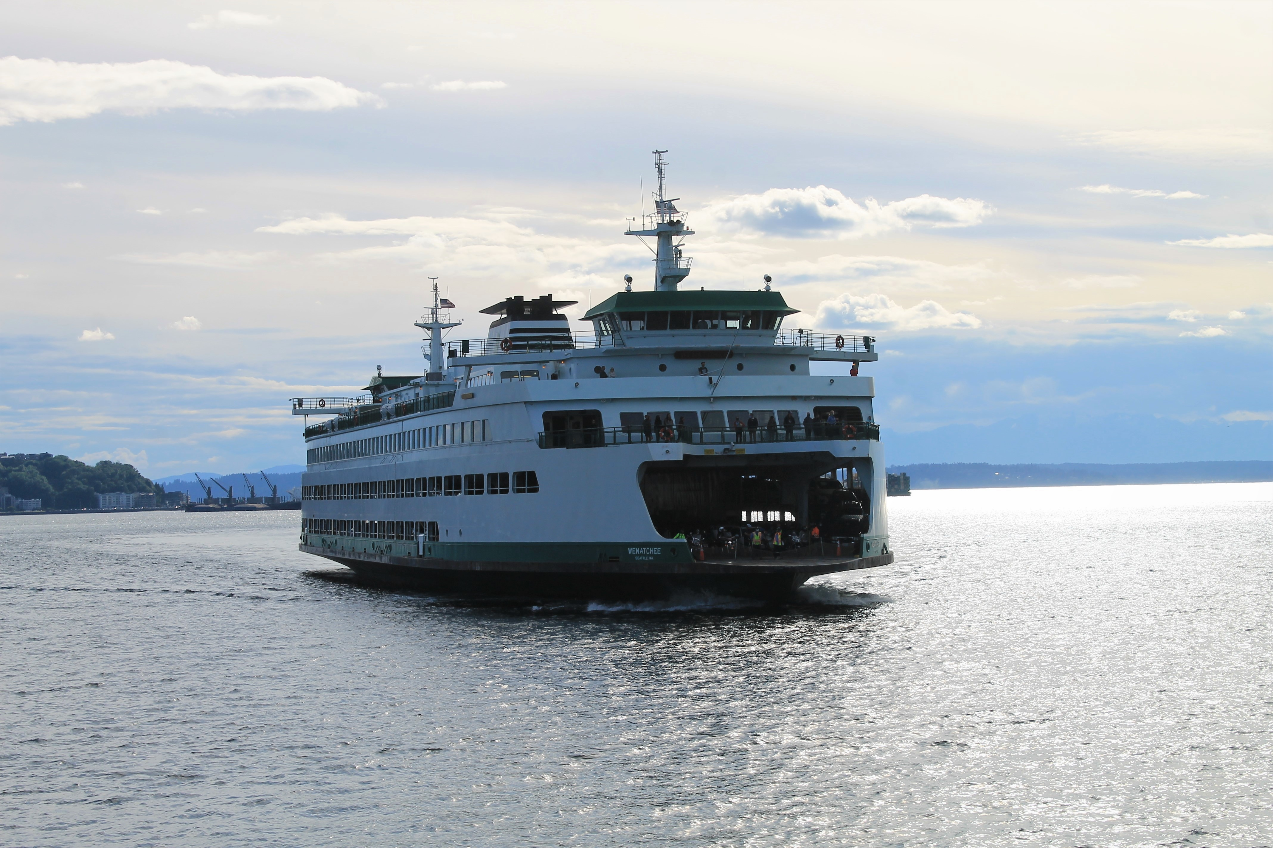 This is a photo of the Wenatchee Ferry, which transports its passengers from downtown Seattle to Bainbridge Island.